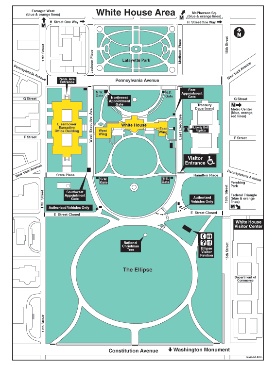 White House Area Map